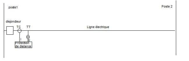 distance protection connexion diagram